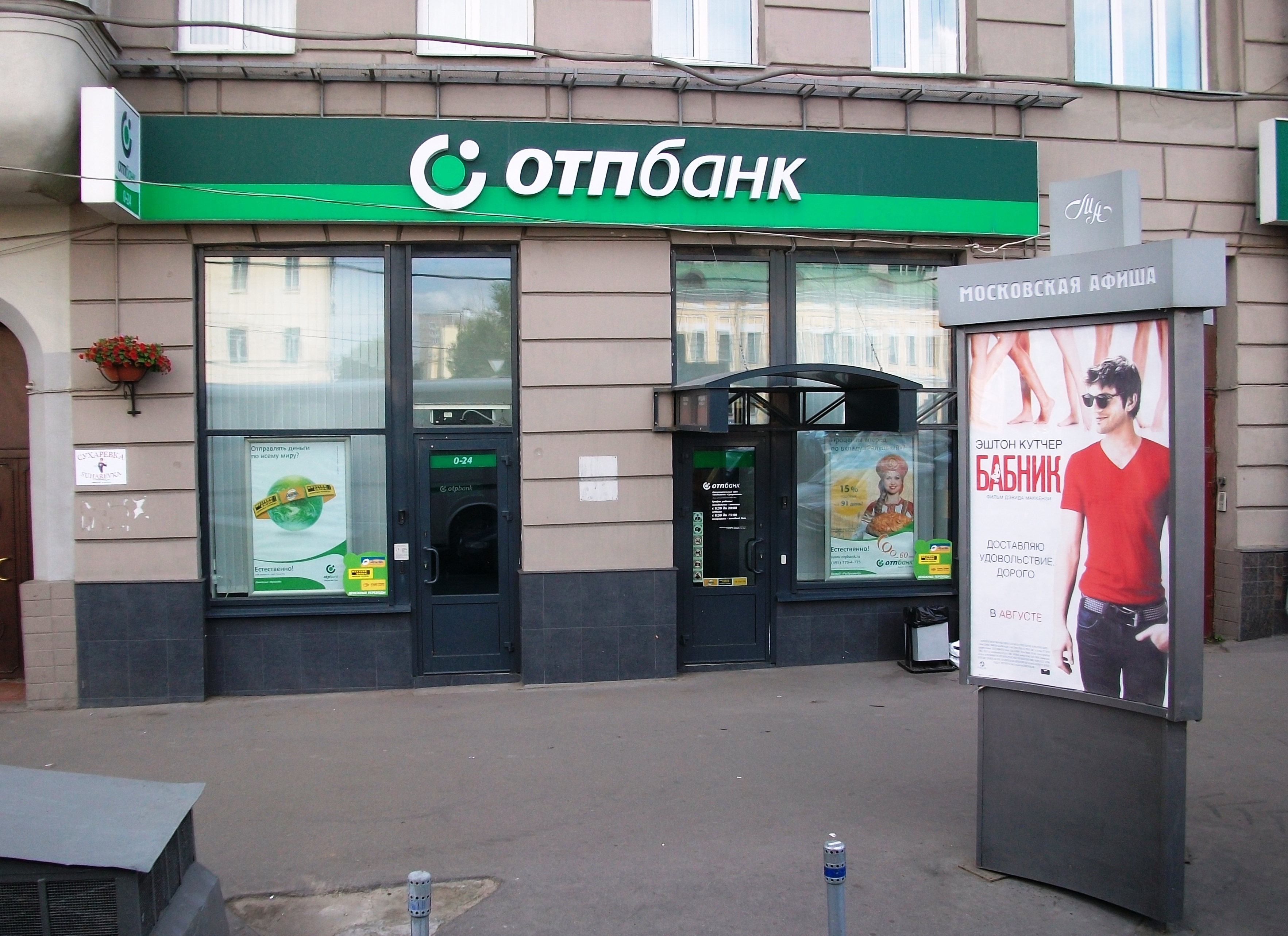 OTP Bank (Hungarian bank) in Moscow, Russia